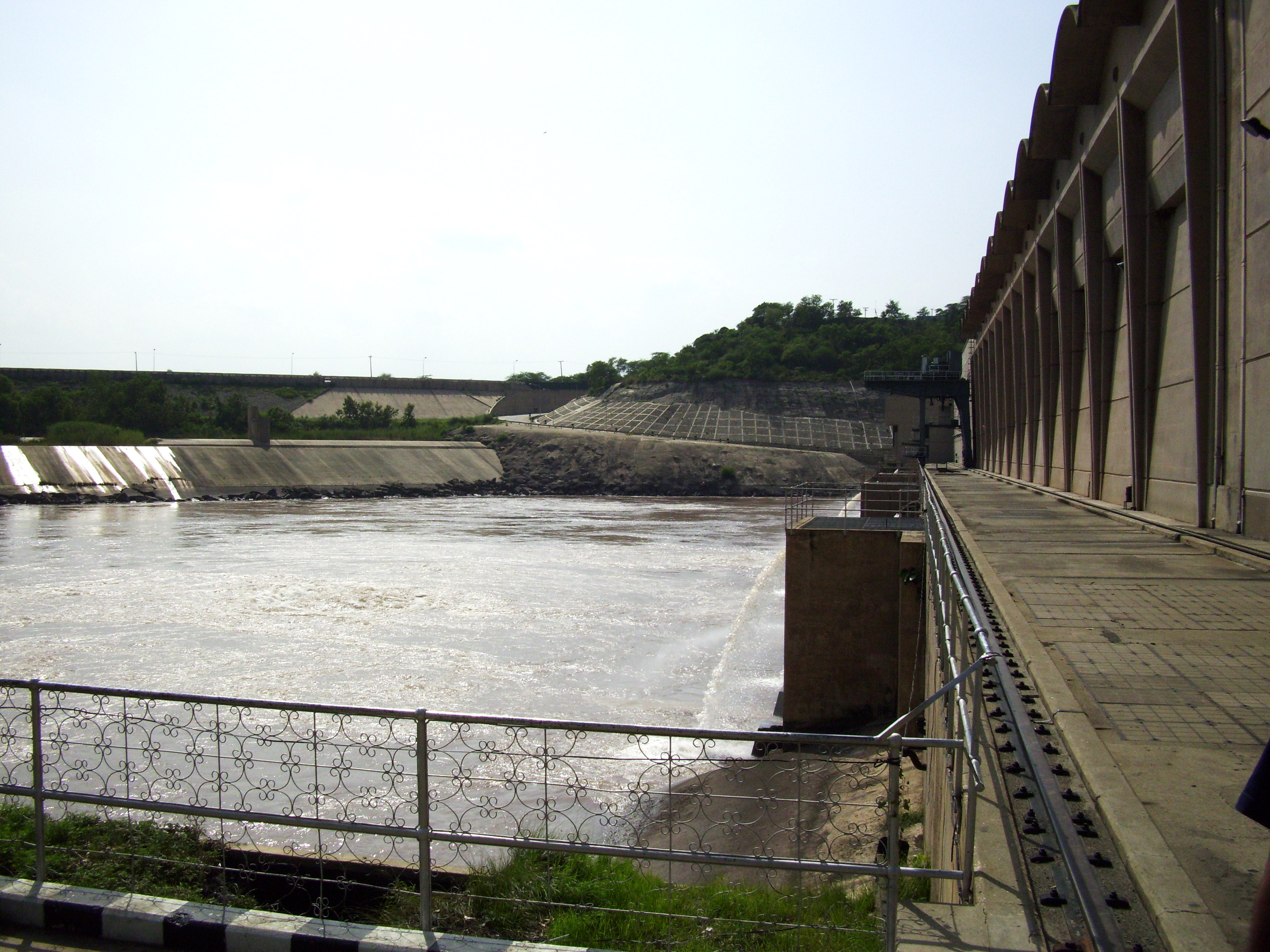 Powerhouse at Mangla Dam.